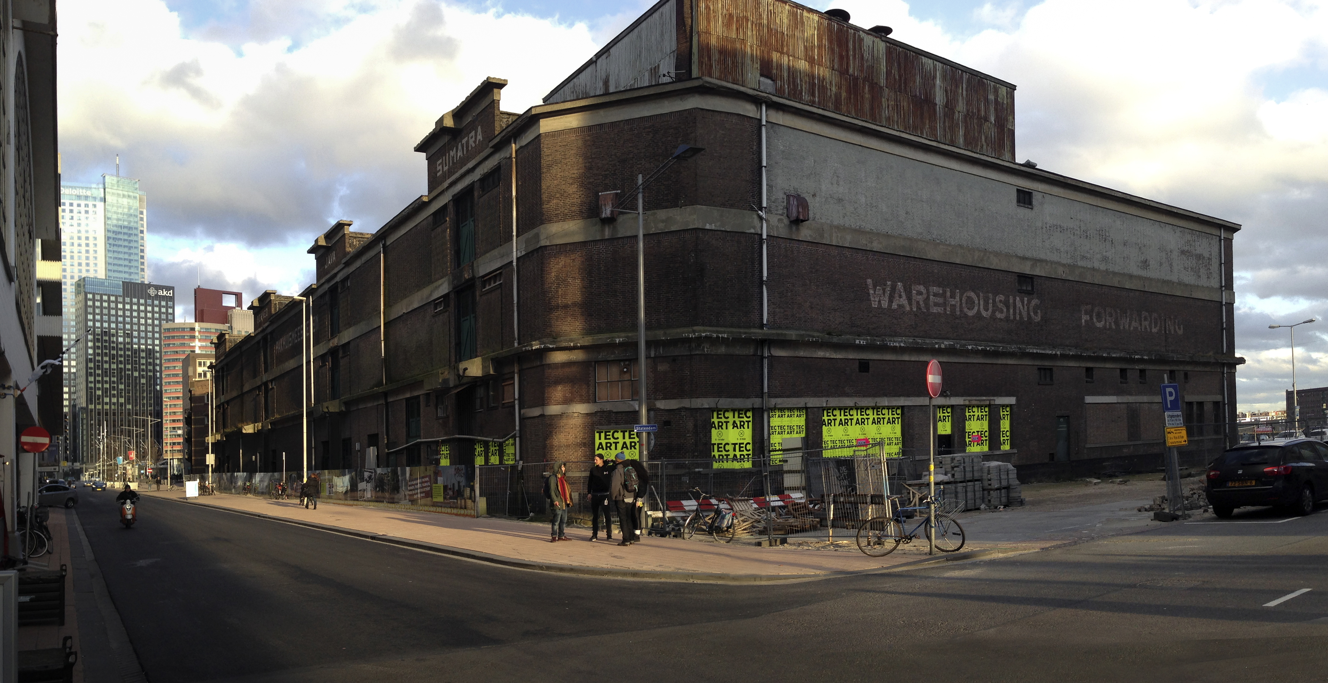 Old warehouse in Kop van Zuid, Rotterdam